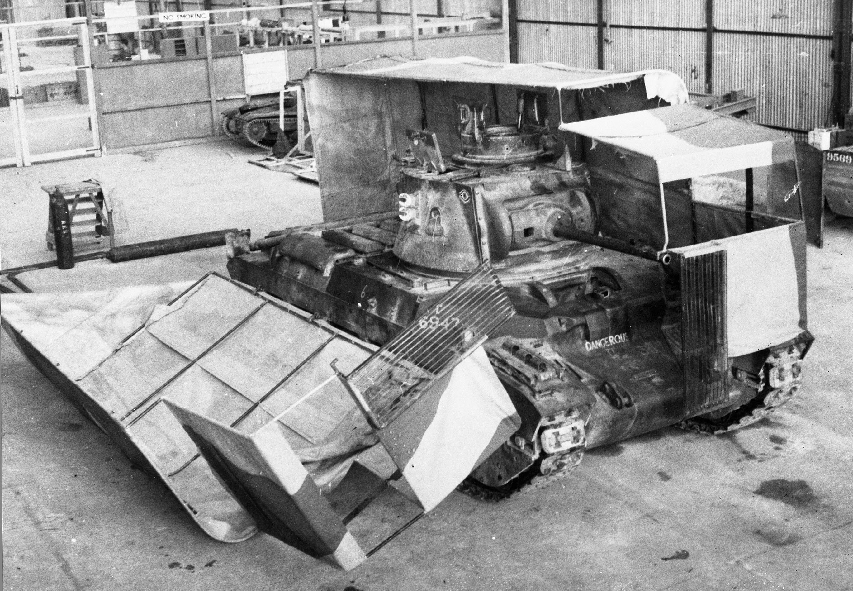 'Sunshield' split cover, one half on, one half off a tank in the workshops at Middle East Command Camouflage Development and Training Centre, Helwan, Egypt, 1941, as used in Operation Bertram